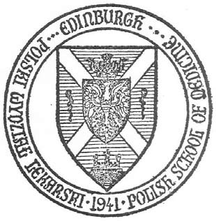 Emblem of the Polish School of Medicine at the University of Edinburgh (1941)